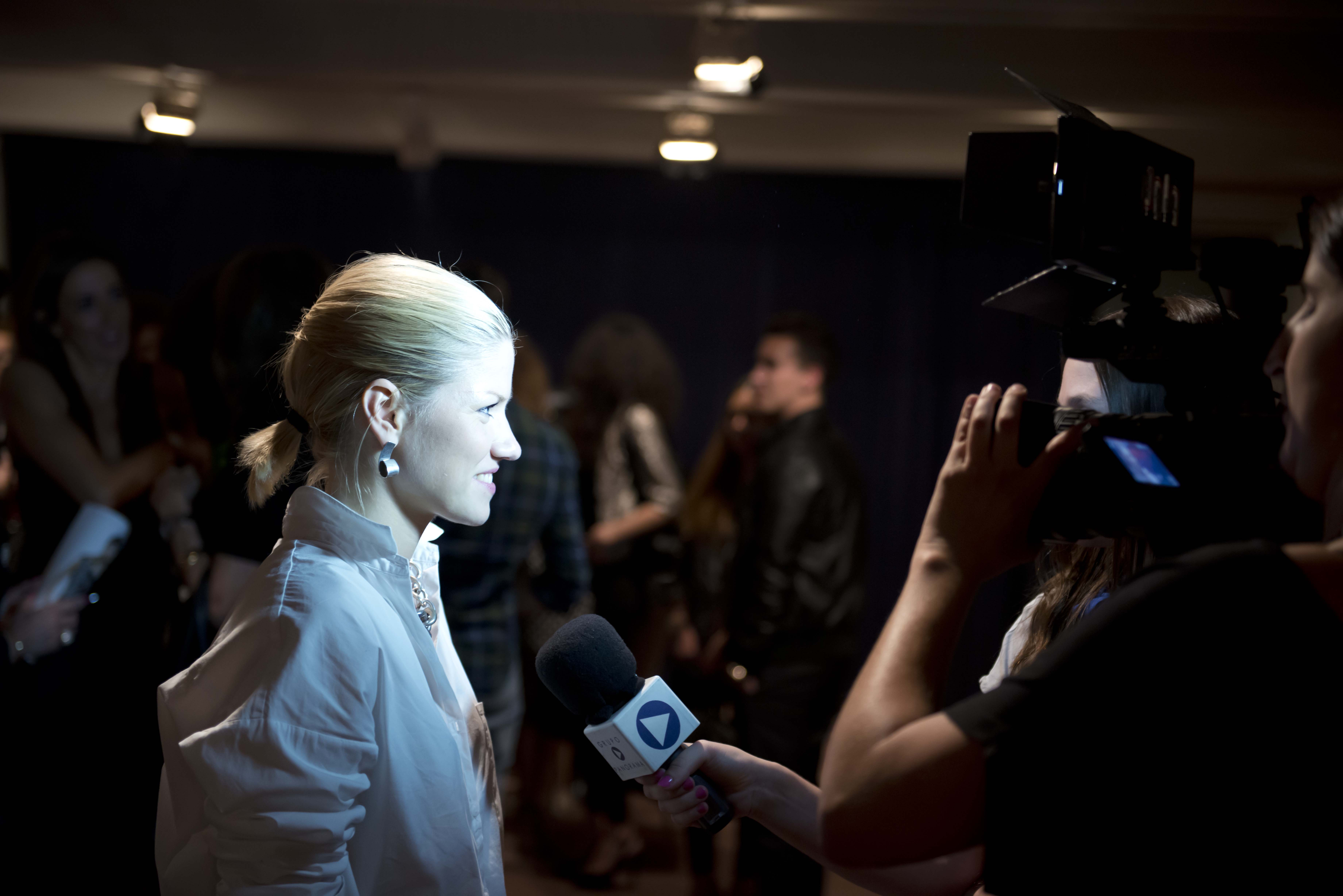 Zuzana Kralova at Premio Comunidad de Madrid Nuevos Diseñadores 2013, Jury Special Prize